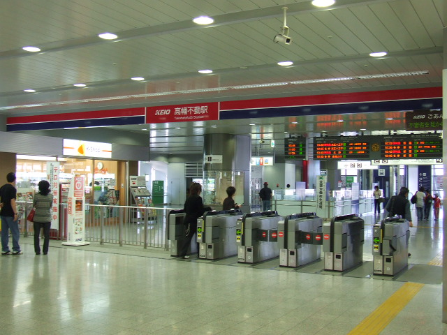 Ticket Gate of Takahatafudo Station, KTR KEIO LINE, Keio Electric Railway, Japan